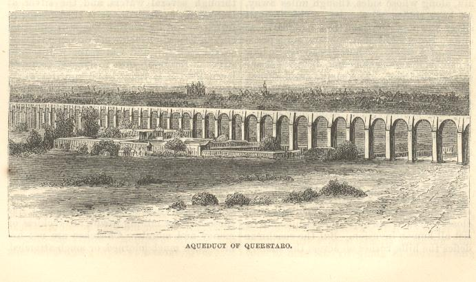 Aqueduct of Queretaro, Mexico, drawing published in 1874.